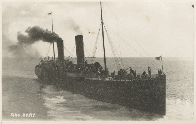 Isle of Man Steam Packet Company paddle steamer King Orry, approaching Douglas.